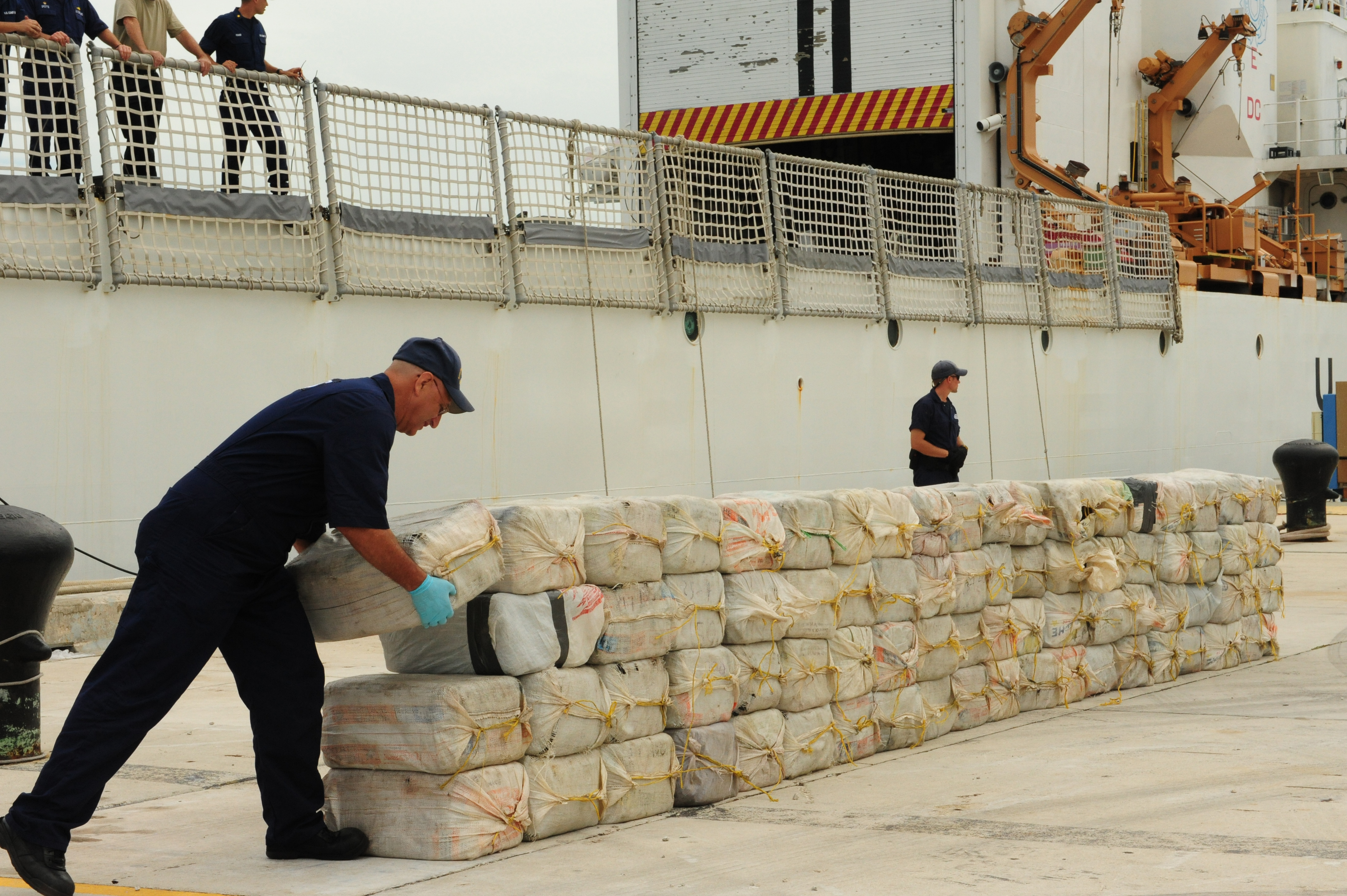 Petty Officer 1st Class Larry Berman, a health service technician aboard the Coast Guard Cutter Tahoma, stacks bales of cocaine on the pier at Base Support Unit Miami Aug. 23, 2010. Tahoma crewmembers offloaded 88 bales with an estimated street value of $87 million. Unit: U.S. Coast Guard Atlantic Area DVIDS Tags: drugs; Miami; cocaine; Coast Guard